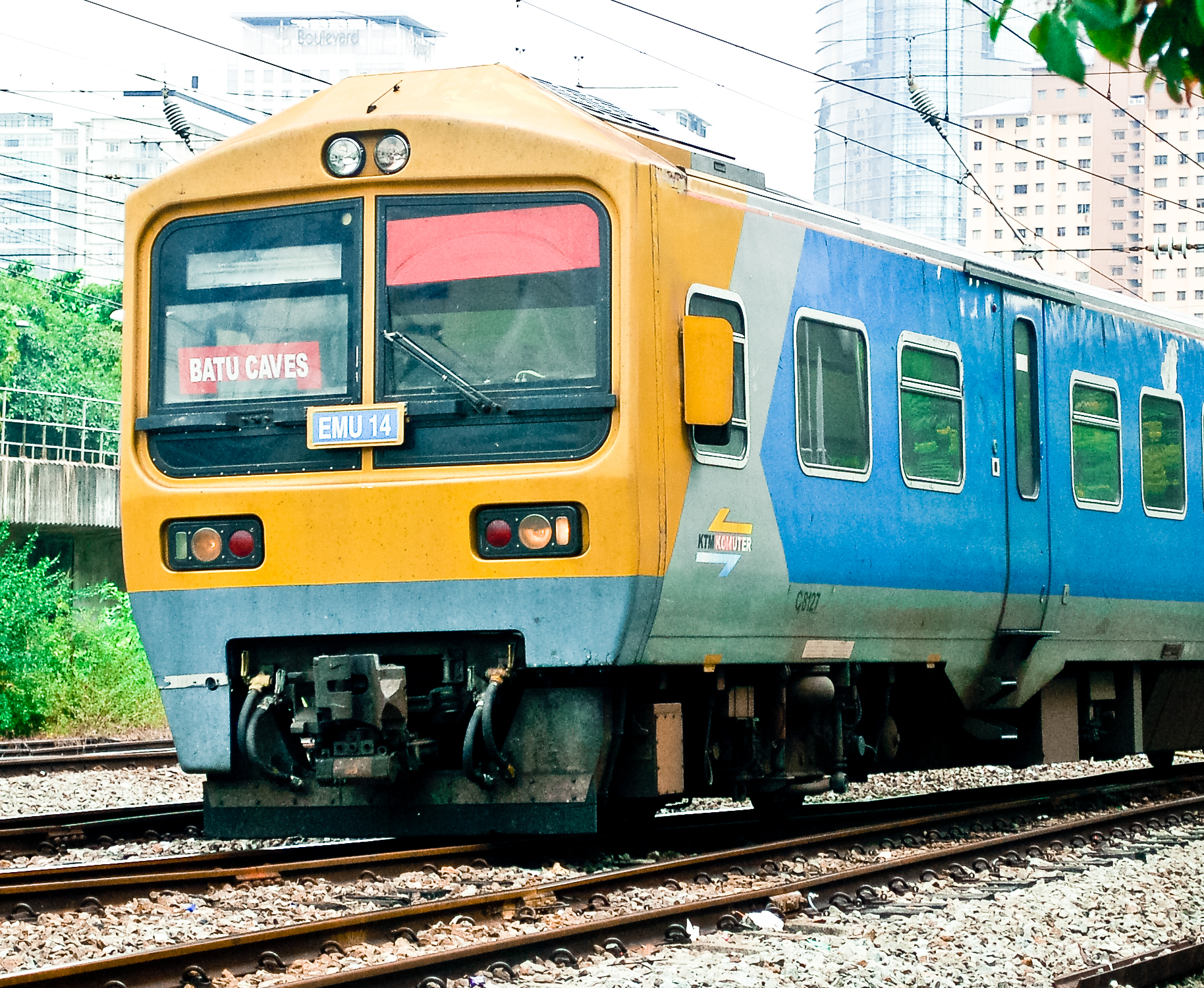 A class 81 KTM Komuter electric train (Jenbacher Transport System/HOLEC, Austria/Holland) (Designation: EMU 14) at KL Sentral Junction, Kuala Lumpur, Malaysia.